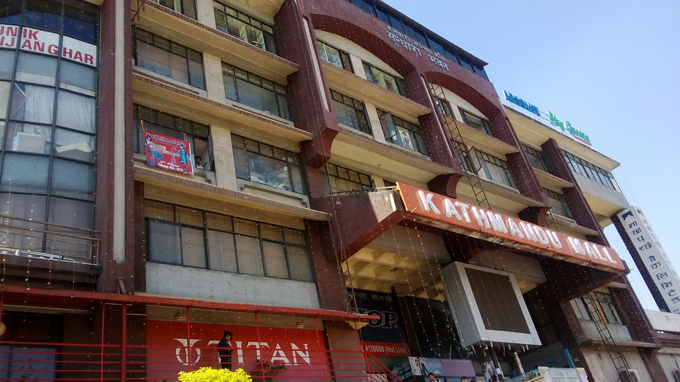 A shopping mall in Kathmandu.